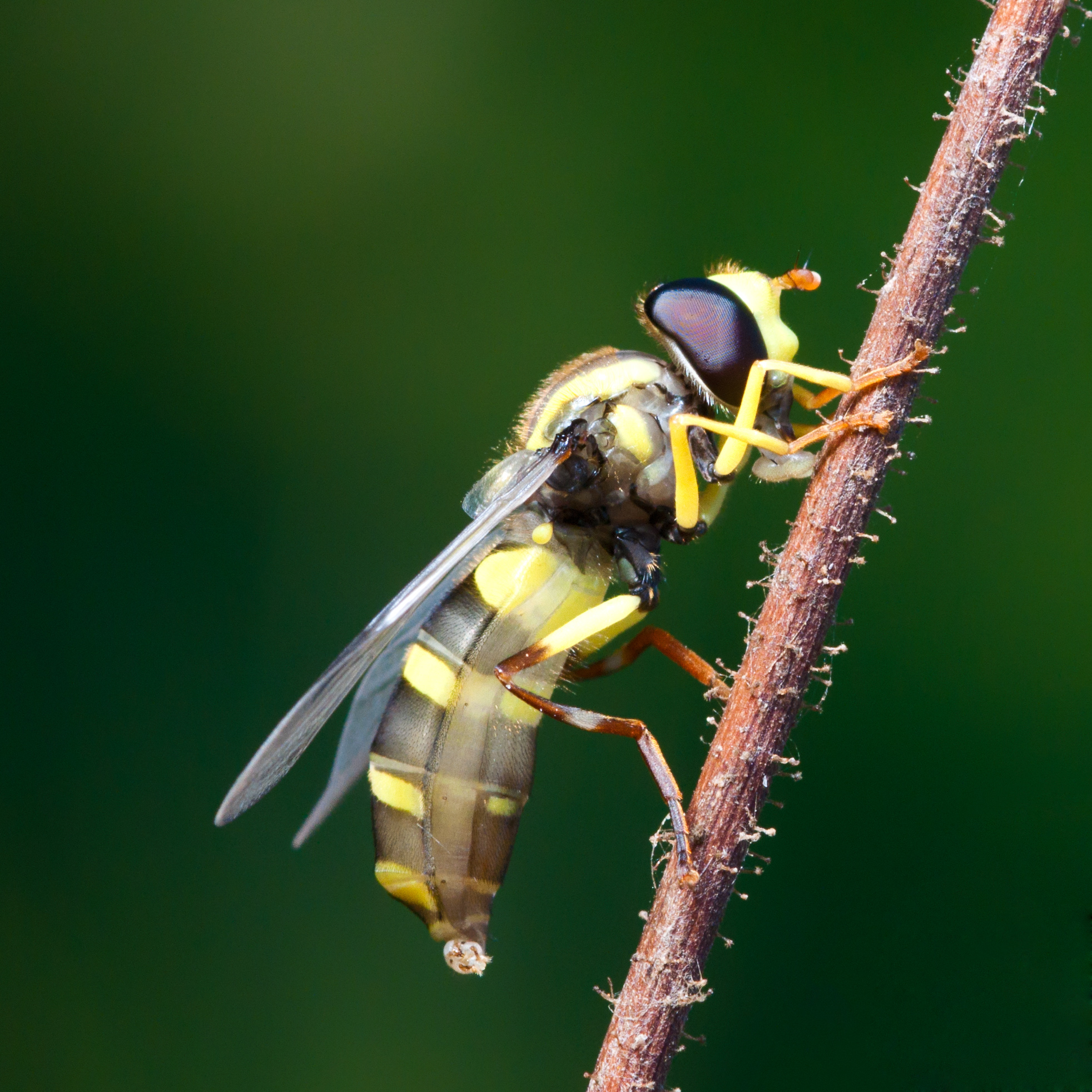 Xanthogramma pedissequum